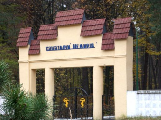 Sanatorium «Nemyriv»